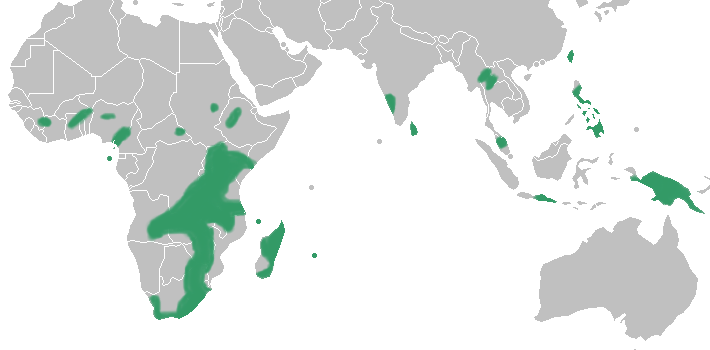 Disperis distribution map